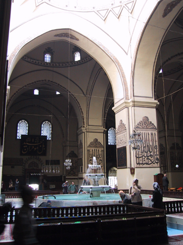 I took this photo myself in March 2001 (AH 1421).